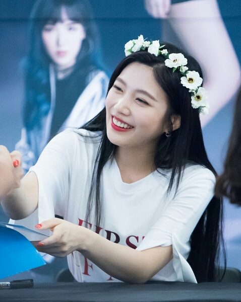 Joy Park at Skechers Fansing on August 22, 2017.